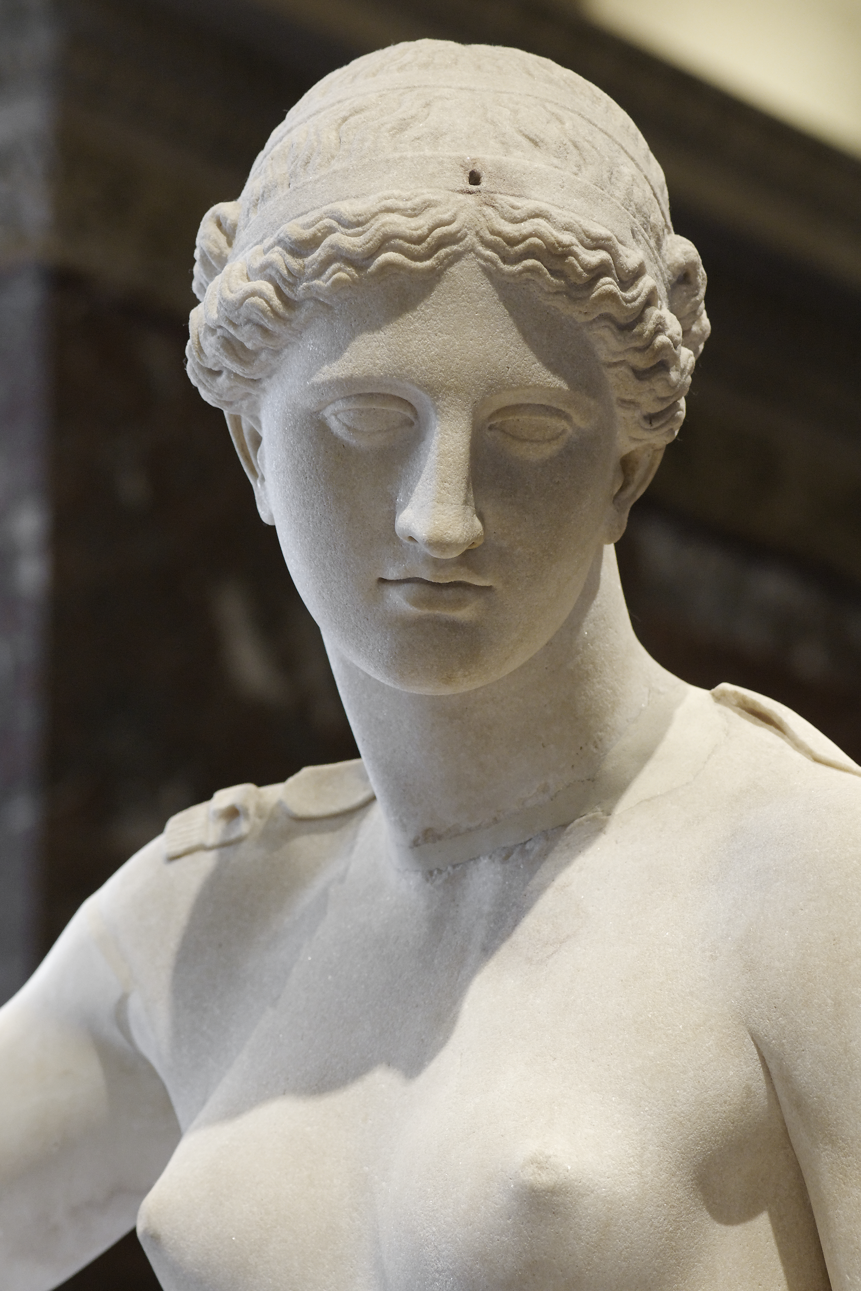 Statue of Aphrodite, known as the Venus of Arles. Hymettus marble, Roman artwork, imperial period (end of the 1st century BC), might be a copy of the Aphrodite of Thespiae by Praxiteles. The apple and the mirror were added during the 17th century. Found in the ancient theatre of Arles, France.